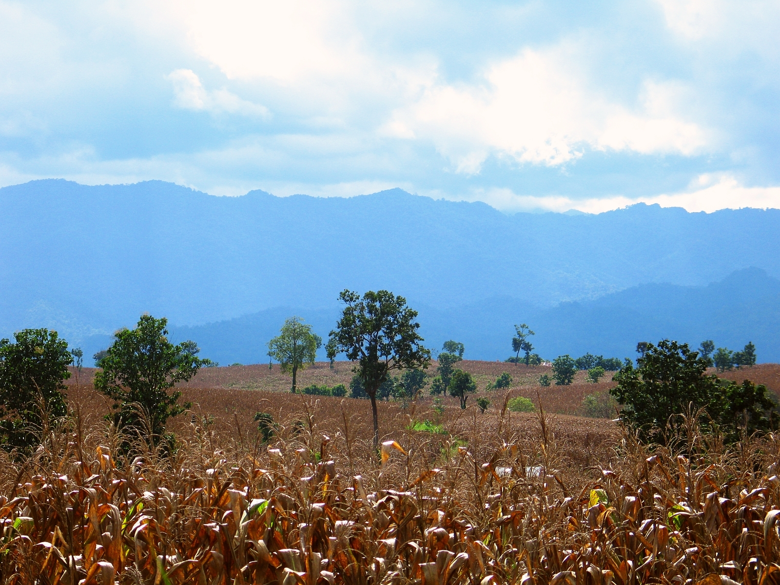 View over the cornfields towards the mountains of Burma; from road 1090, south of Mae Sot, Tak province, Thailand.